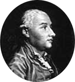 Belsazar Hacquet (1739-1815)